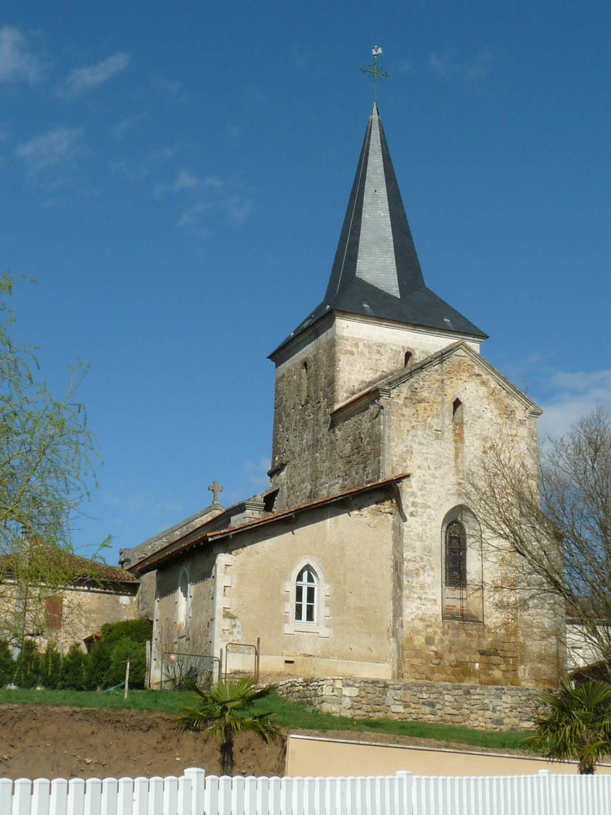 church